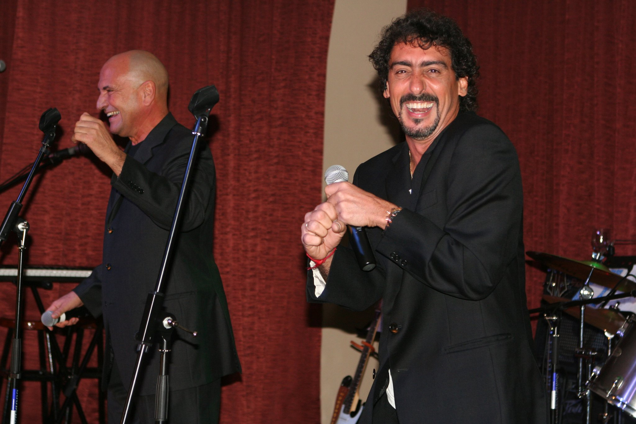 Los Fonomemecos